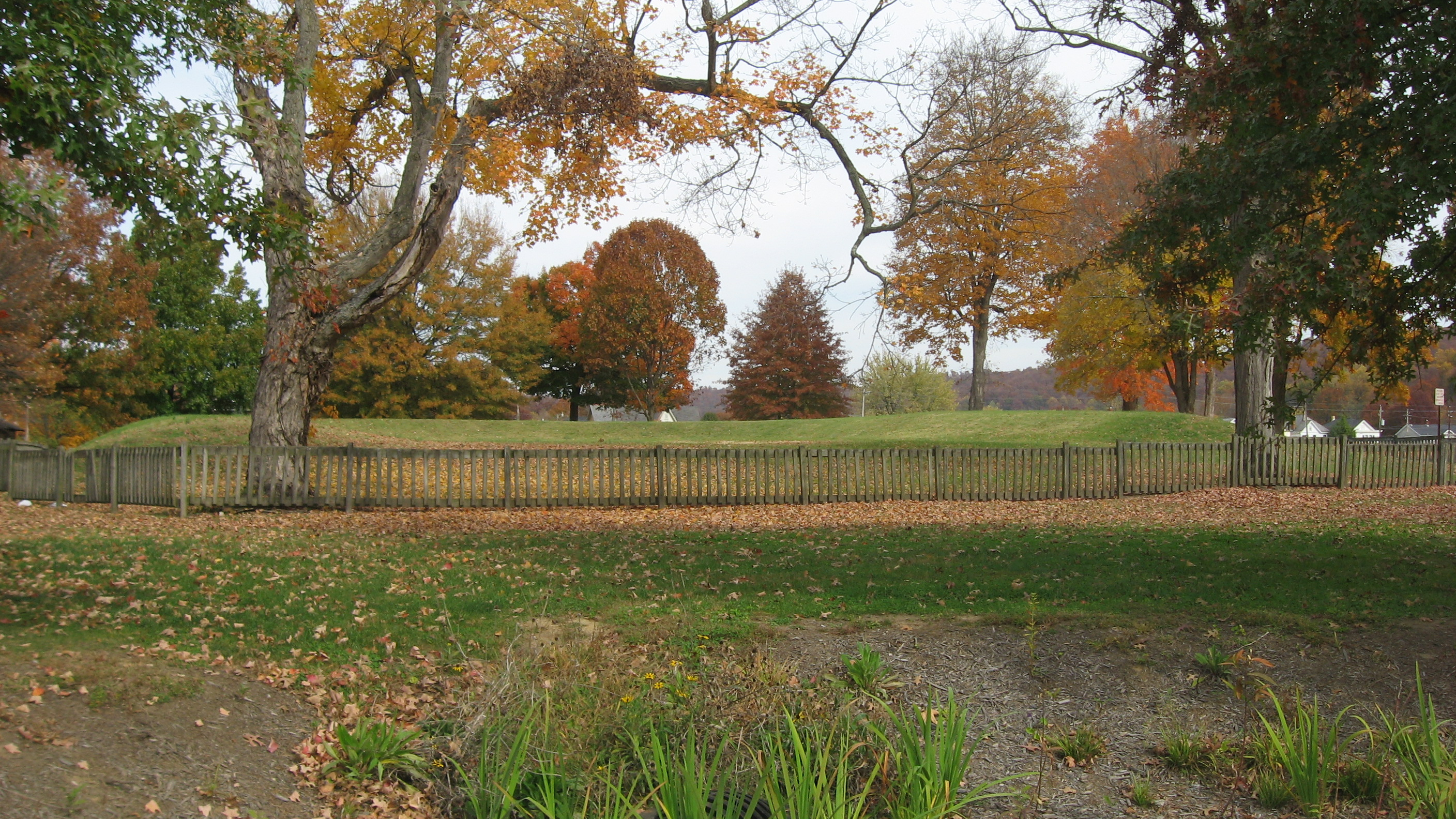 Overview from the south of the Horseshoe Mound, located in Horseshoe Mound Park in Portsmouth, Ohio, United States. Built by prehistoric Hopewellian peoples, the mound is part of the Portsmouth Earthworks, and as an important archaeological site, it is listed on the National Register of Historic Places.